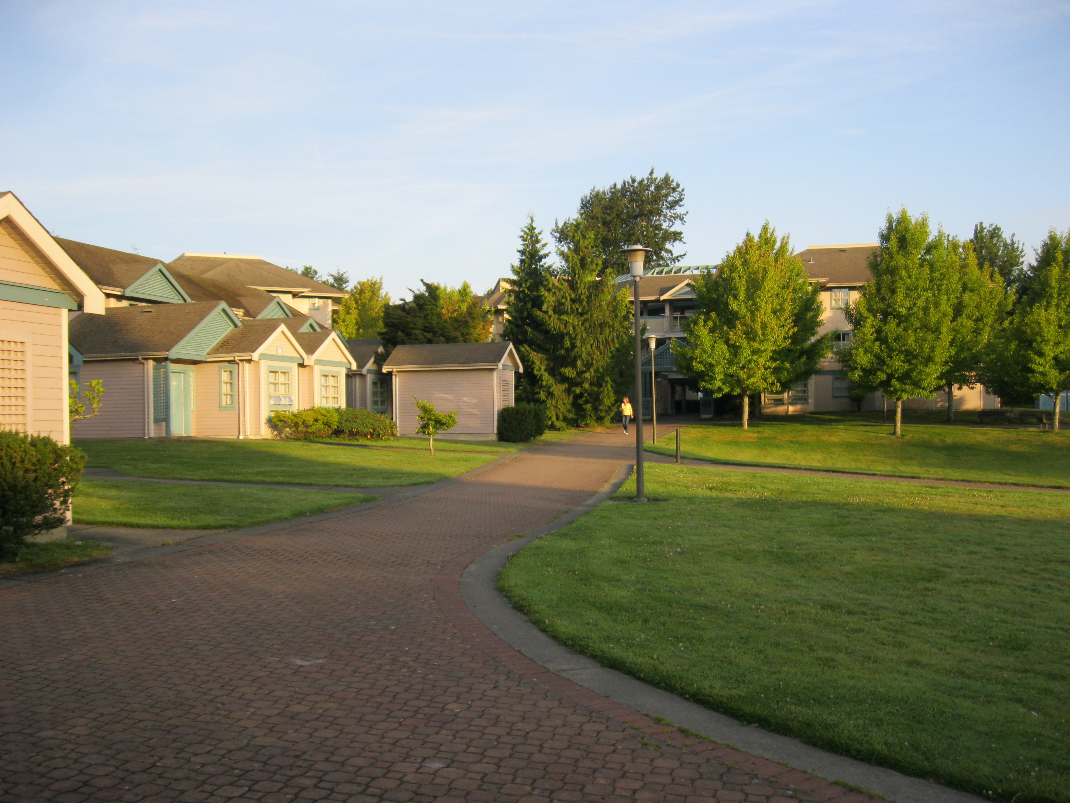 Student cluster housing. READ INFO IN PANORAMIO/COMMENTS